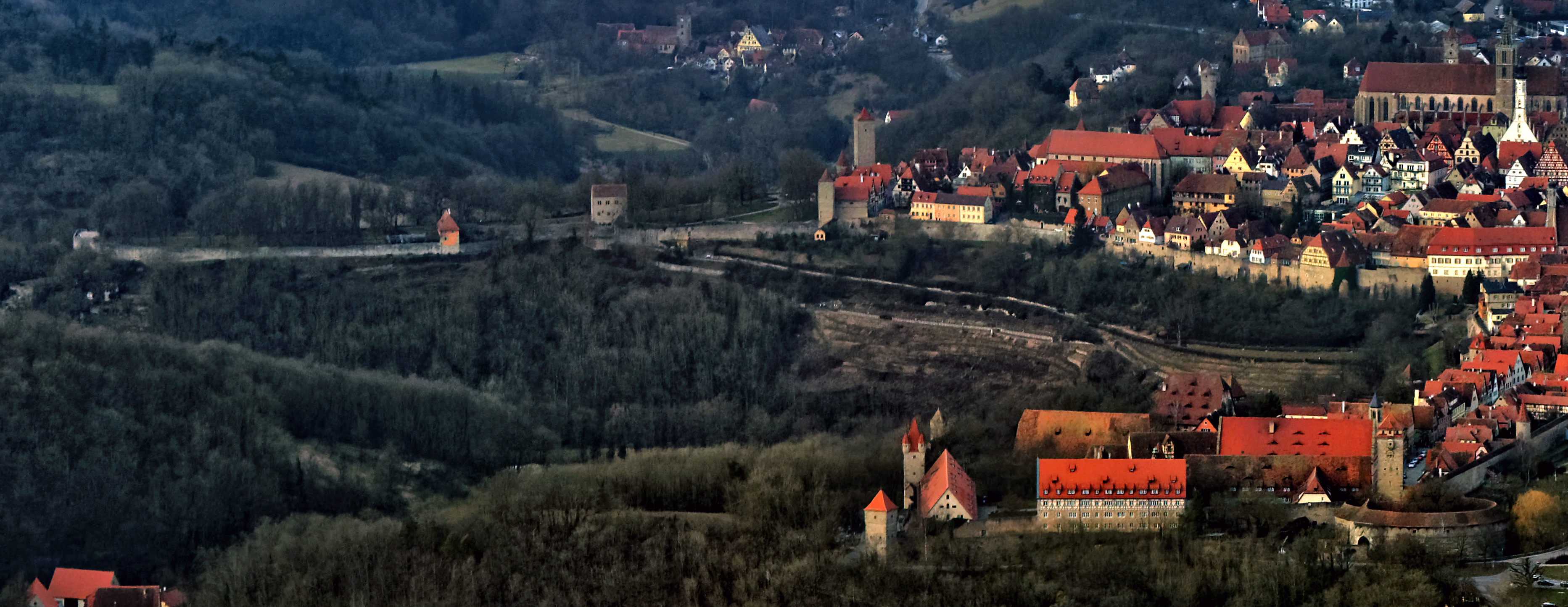 Aerial photographs of Rothenburg ob der Tauber. Castle sites Essigkrug and Burggarten.